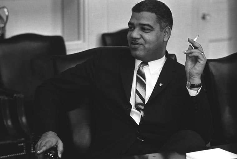 Whitney Young at the White House.